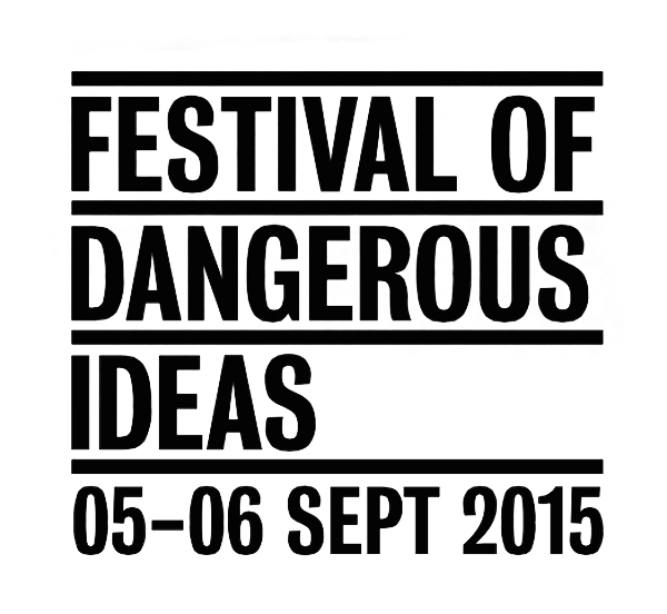 Logo of the festival "Festival of dangerous ideas"